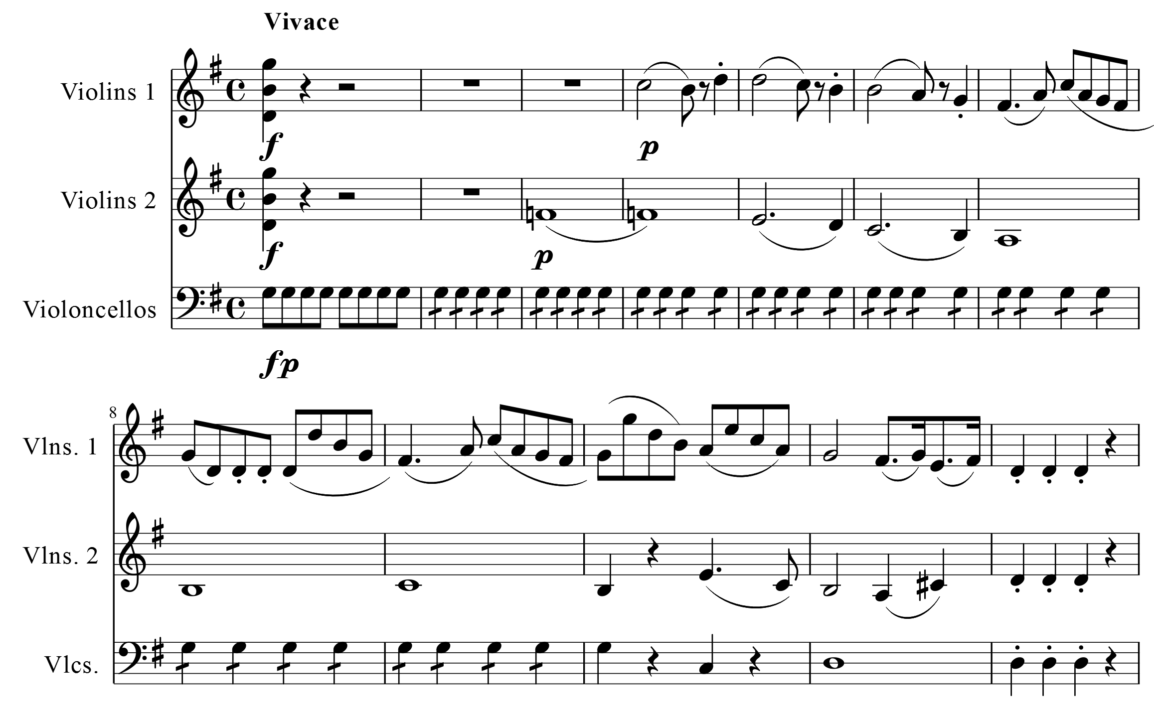 Joseph Haydn, Symphony No. 81, first movement, bar 1-12